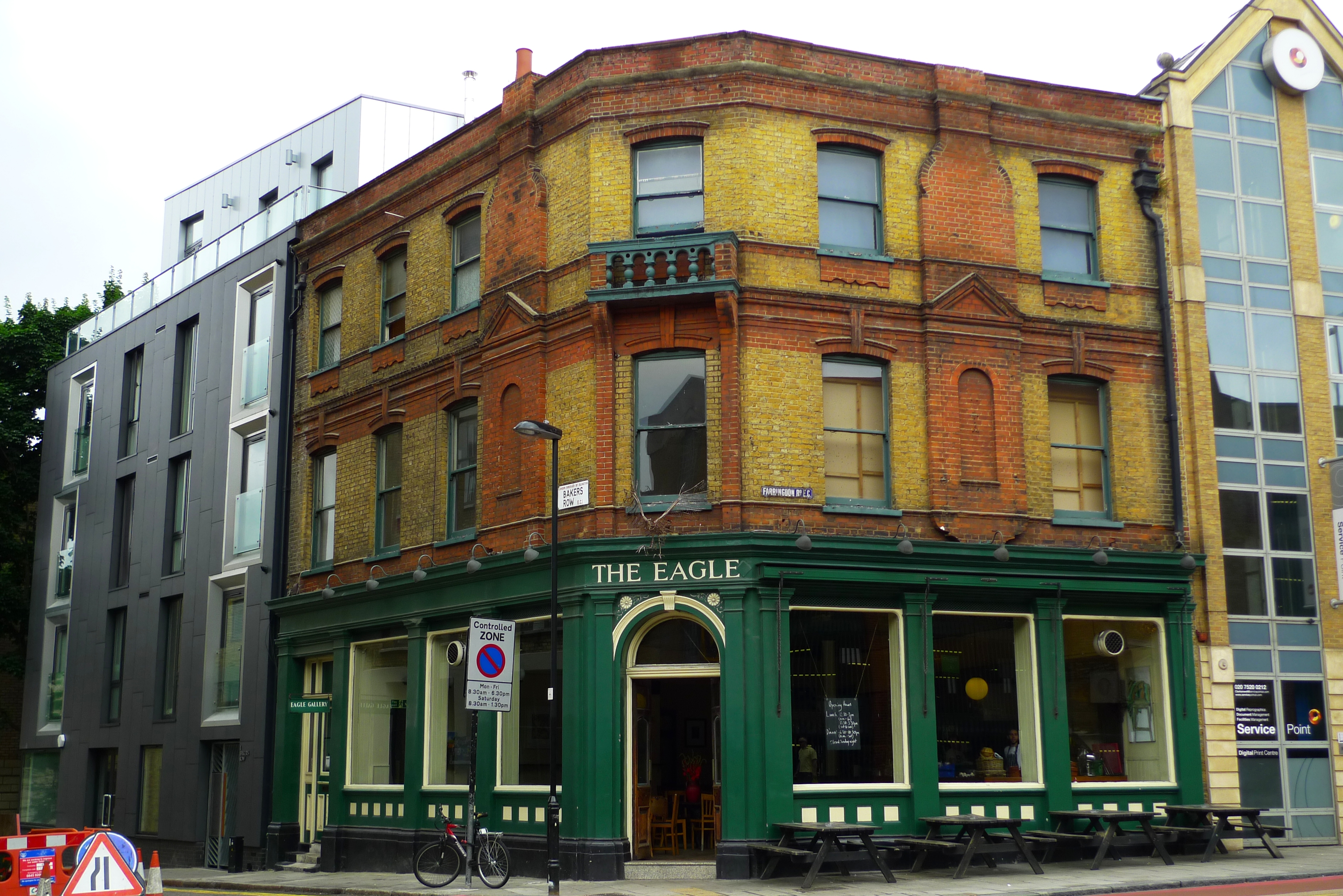 A gastropub not far from the Guardian's (former) offices, reputed to be the first of its kind. Address: 159 Farringdon Road. Links: London Pubology